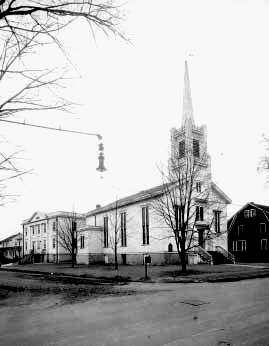 The original facility of Black Rock Congregational Church